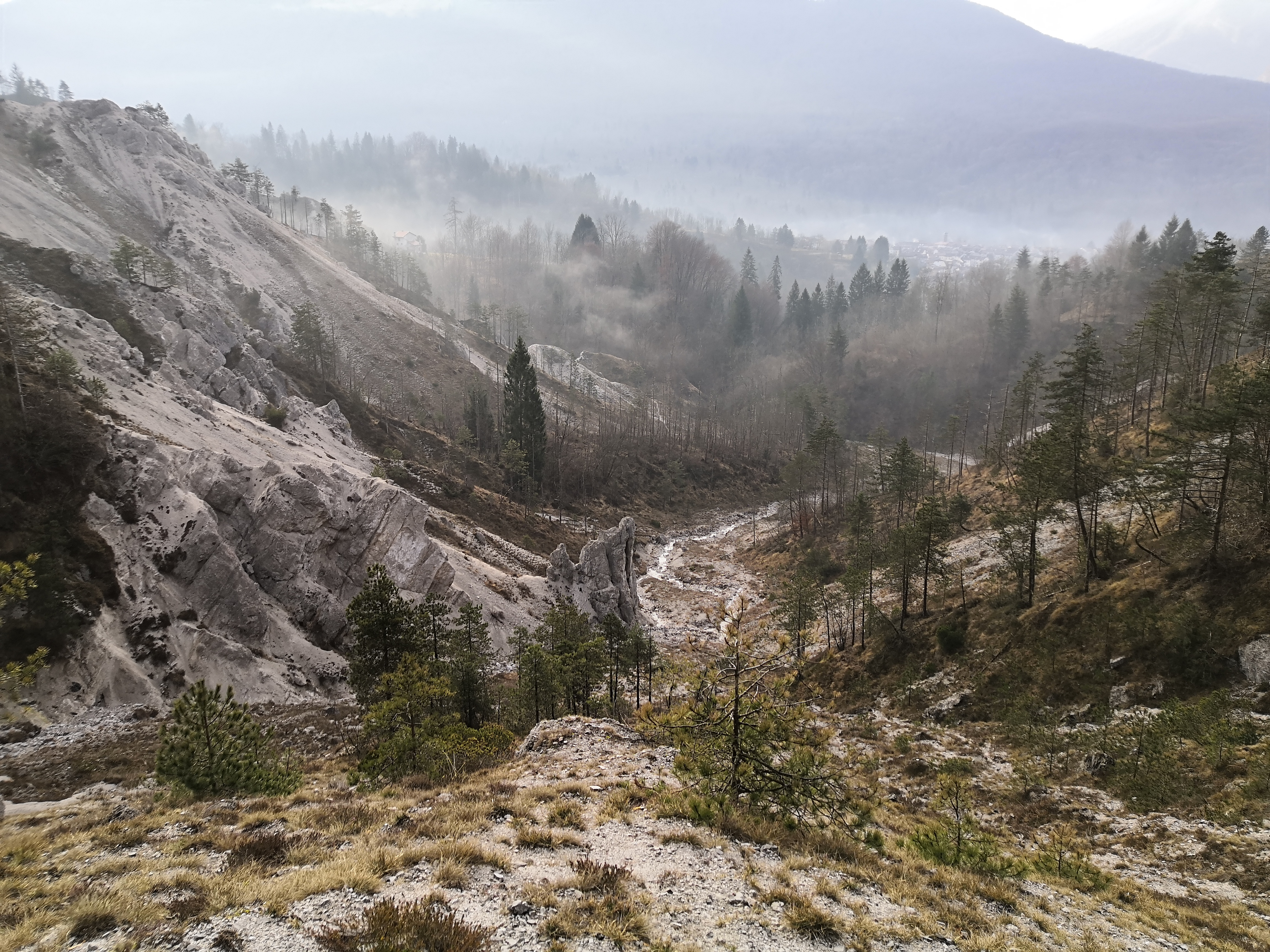 January landscape along the Mt. Ciavac nature trail. Andreis can be seen in the background.